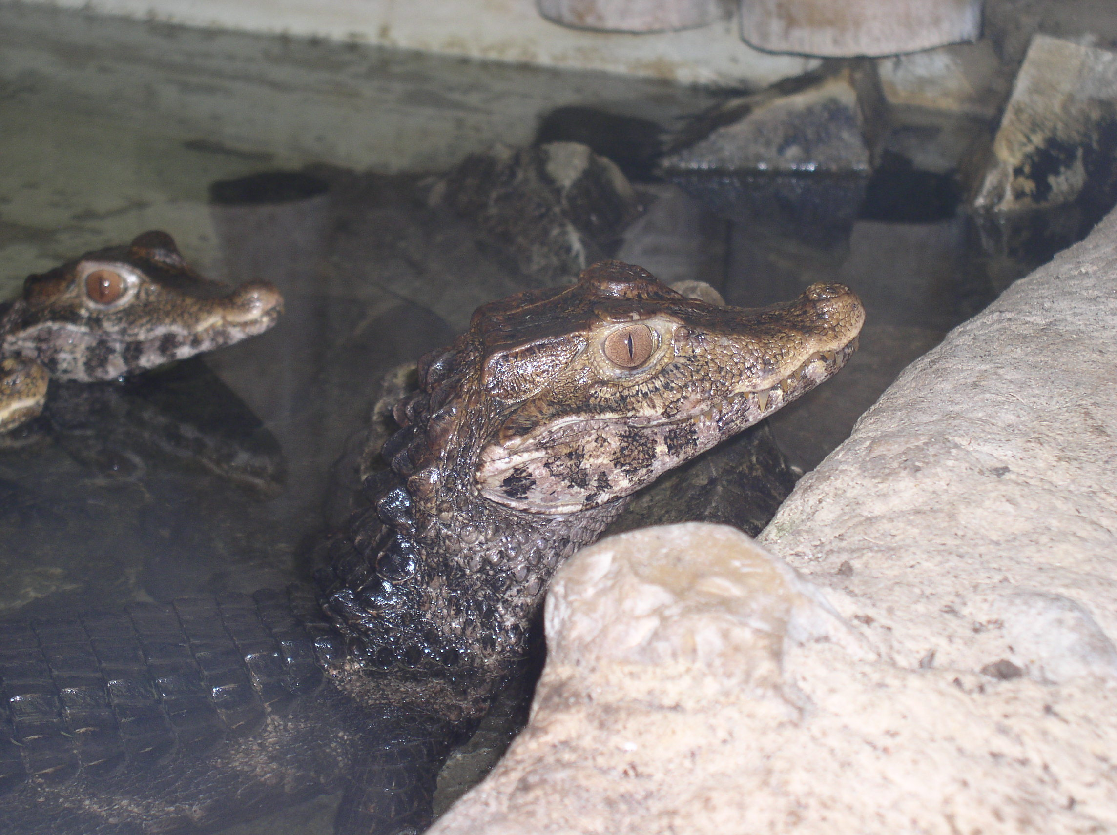 Paleosuchus palpebrosus, taben at the Tierpark Berlin